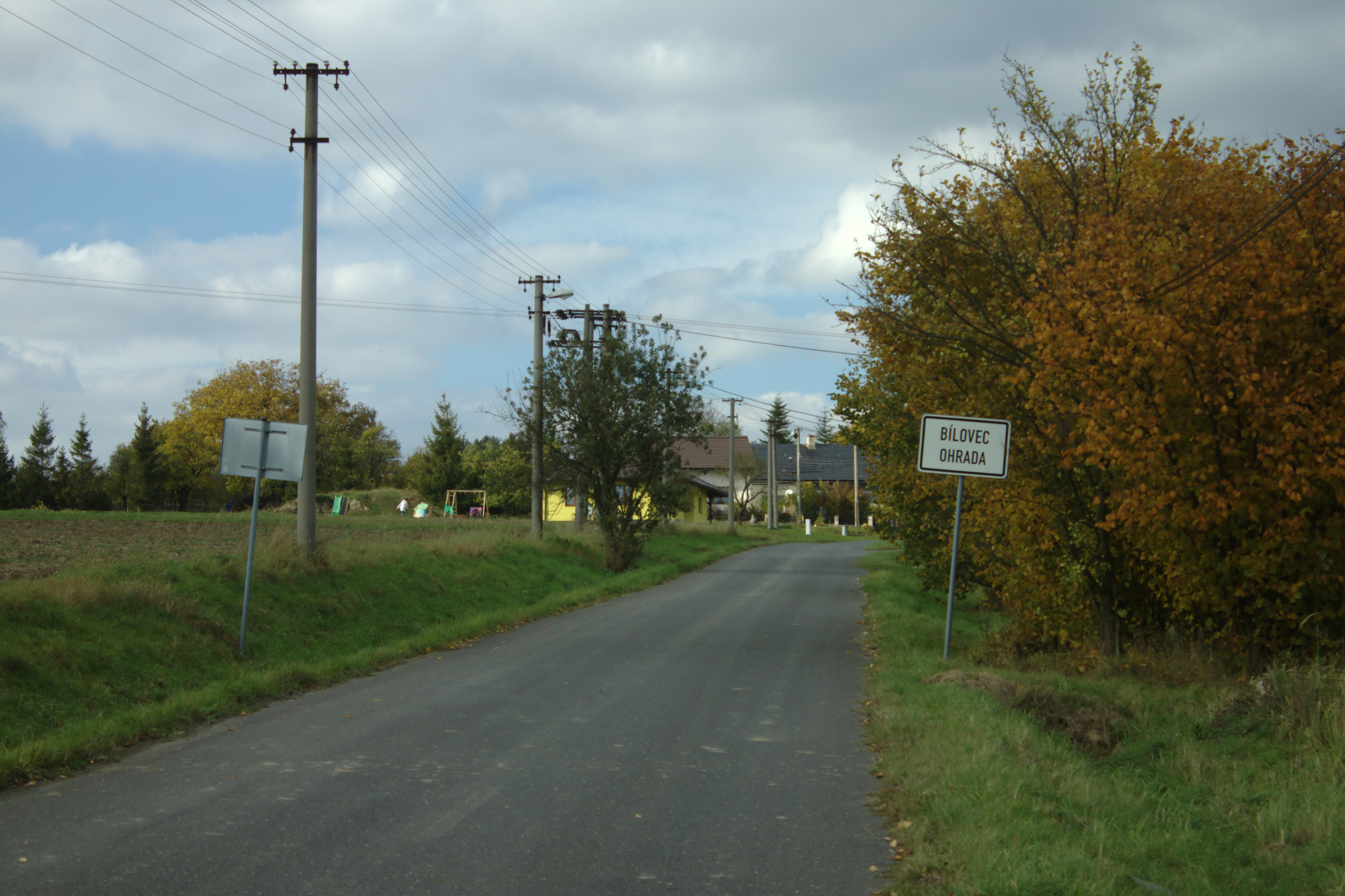 Town limit of Ohrada near Bílovec, Moravian-Silesian Region, CZ